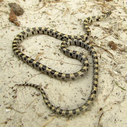 Short-Tailed Snake photographed November 2011 Central Florida